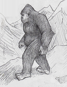 Sasquatch Yeti Bigfoot Bugerbear Yowie